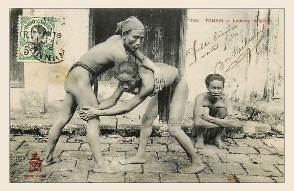 Wrestling